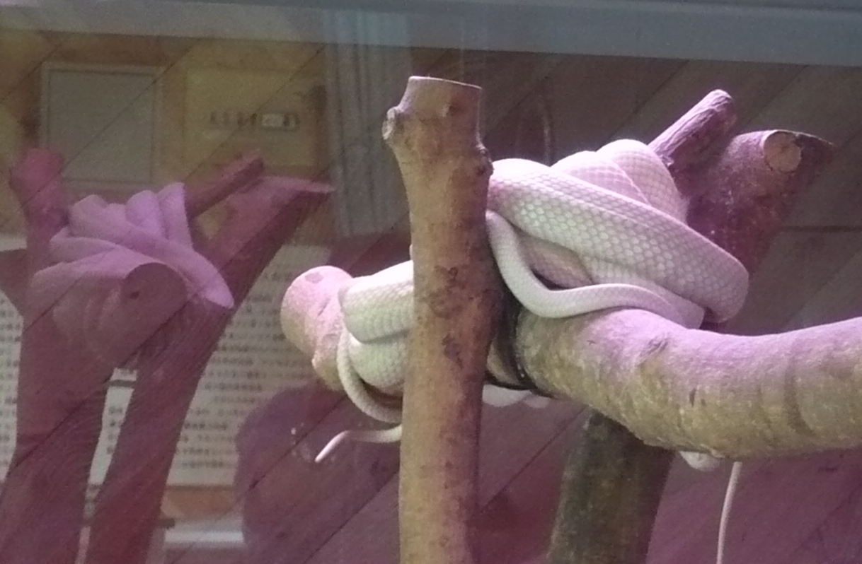 White snake in captivity